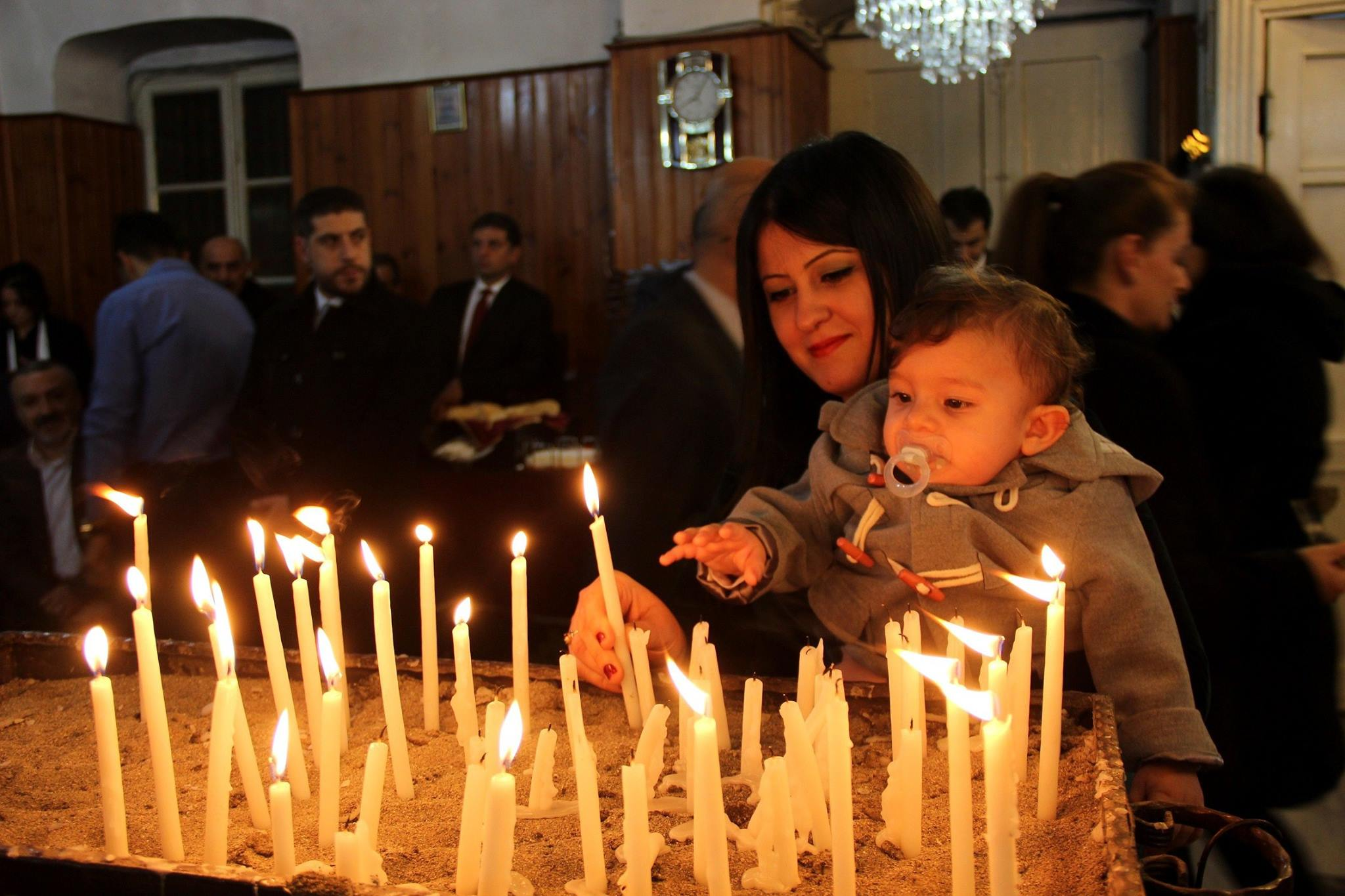 Inside orthodox church in iskenderun